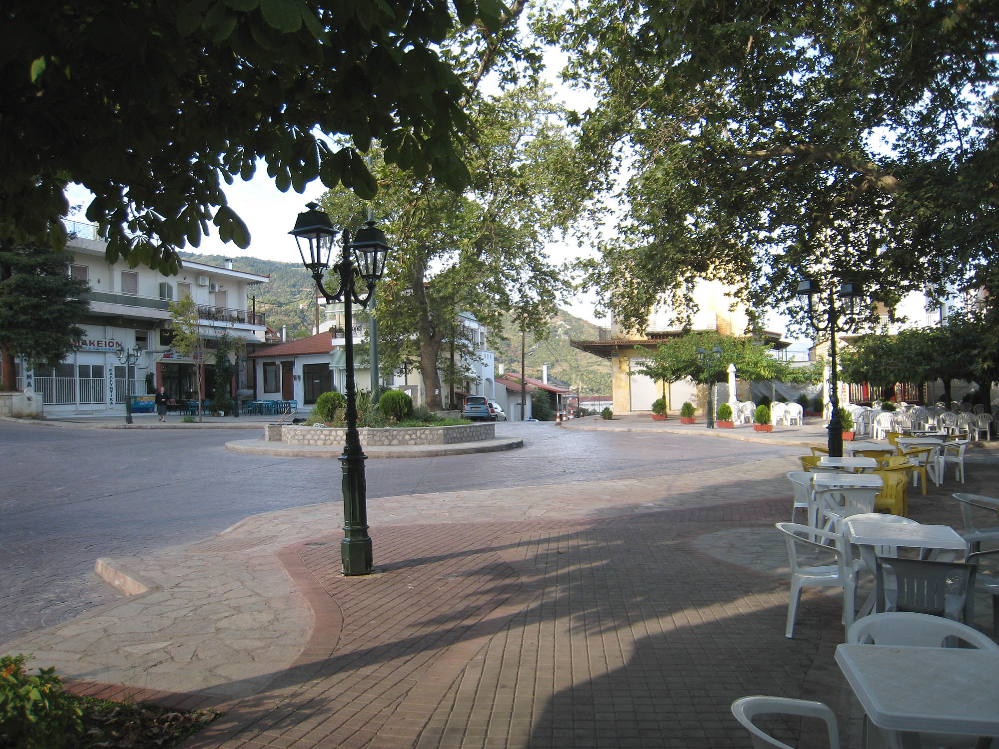 The centre of Ypati, Greece